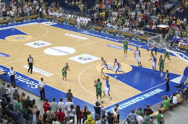 Lithuanian national basketball team playing against Iceland in Vilnius on the 15th of July 2008.